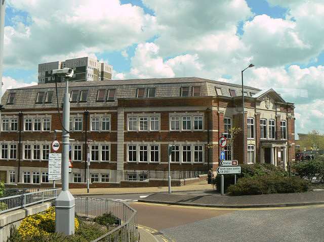 Erith Town Hall Now part of the Borough of Bexley.